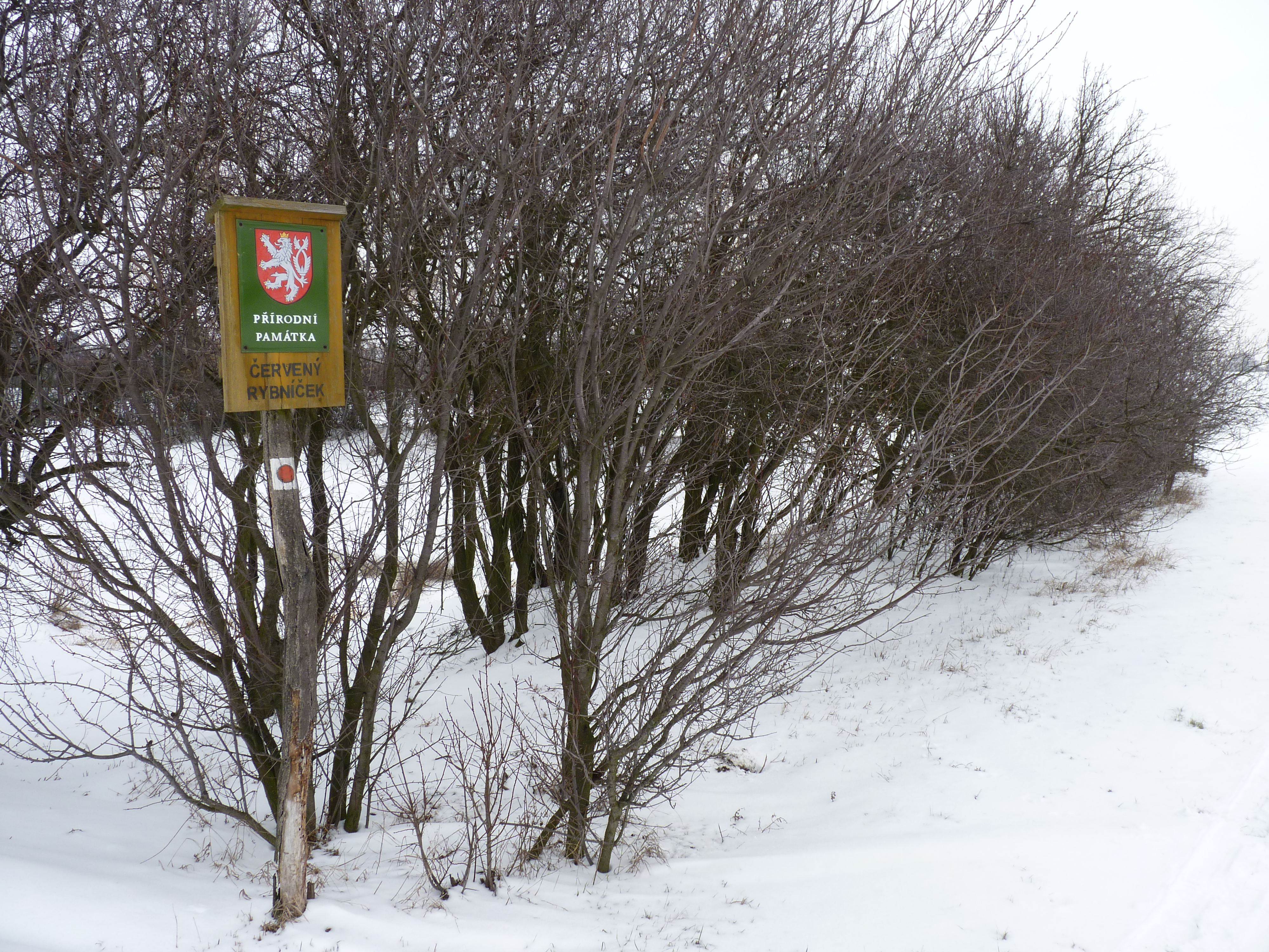 Červený rybníček (natural monument), Znojmo District, South Moravian Region, Czech Republic